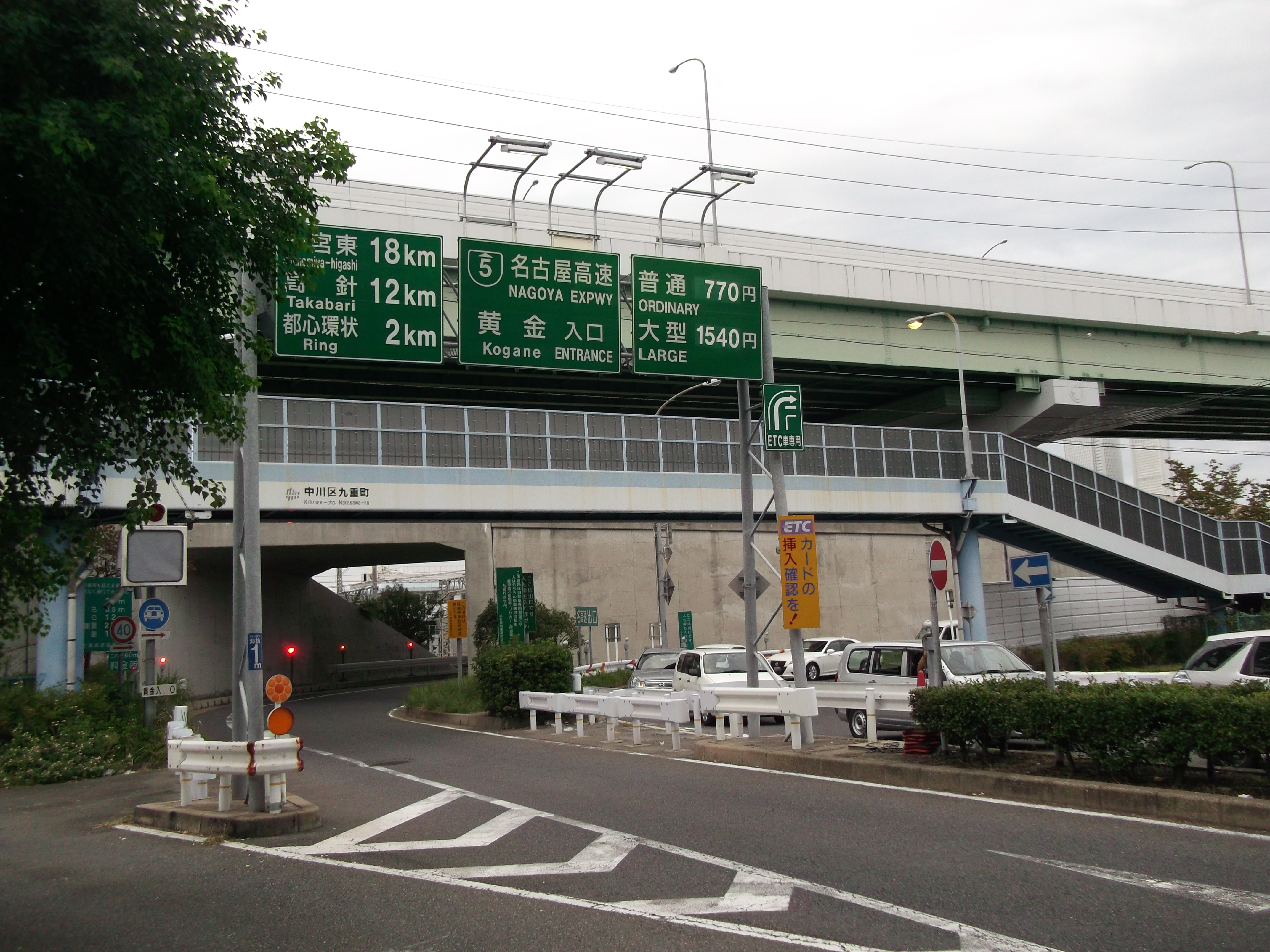 Kogane Entrance on the Nagoya Expressway Route 5 in Nakagawa-ku, Nagoya City